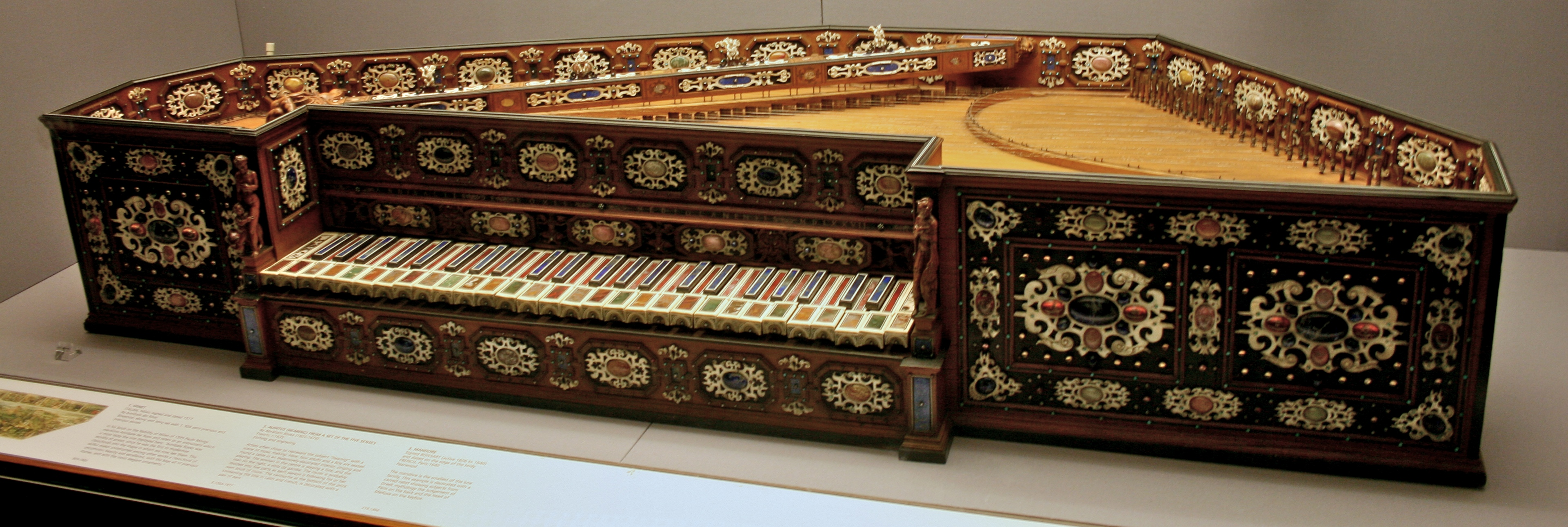 Spinet. Italian, Milan; signed and dated 1577. By Annibale dei Rossi. Boxwood, ebony and ivory set with 1,928 semi-precious and precious stones. In his book on the Nobility of Milan of 1595 Paulo Morigi mentions Annibale dei Rossi and refers to an instrument which is most likely the one displayed here: "Annibale Rosso was worthy of praise, since he was the first to modernise clavichords into the shape in which we now see them. This skilful maker constructed among other works a clavichord of uncommon beauty and excellence, with the keys all of precious stones, and with the most elegant ornaments." Collection ID 809-1869.